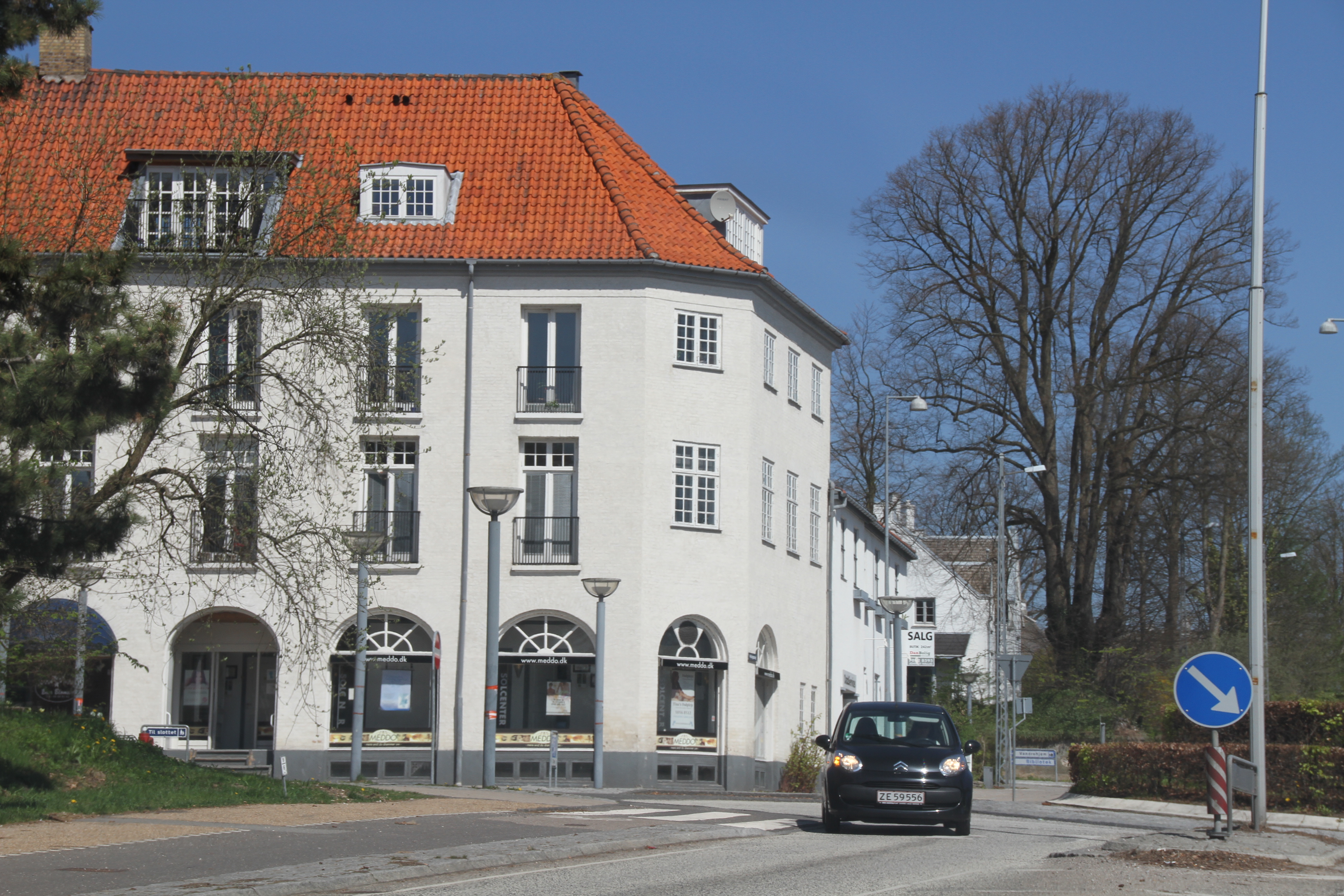 Image from Fredensborg municipality on Zealand, north of Copenhagen - Denmark